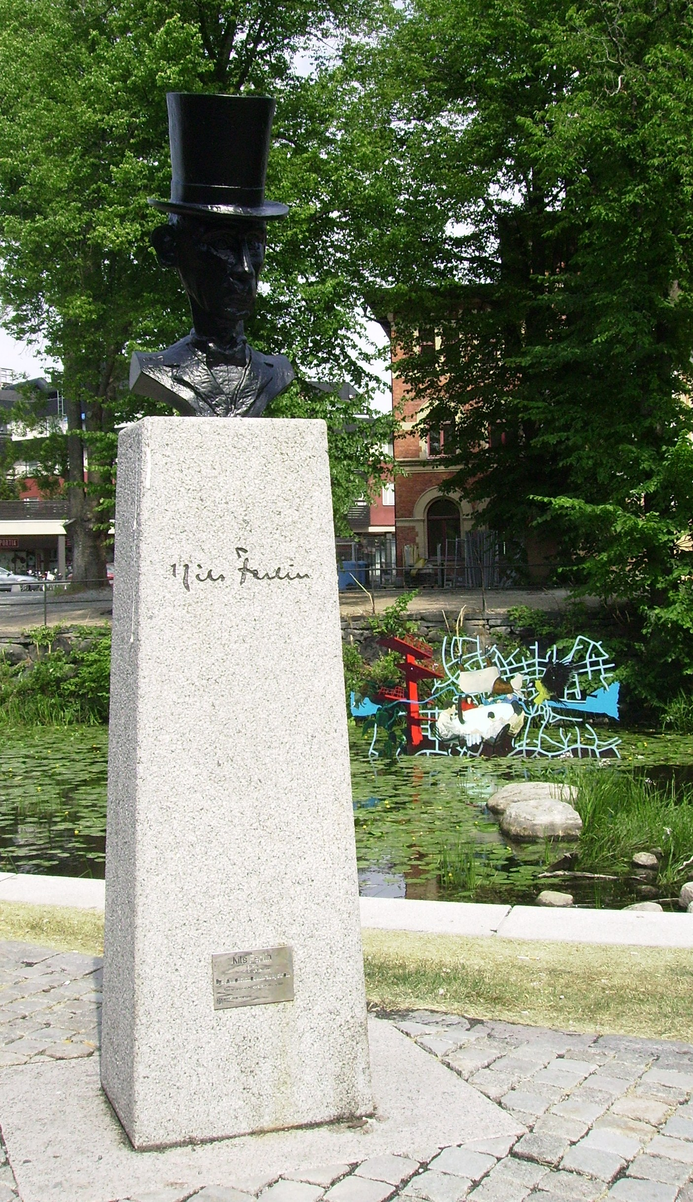 Picture of statue of Nils Ferlin in Norrtälje